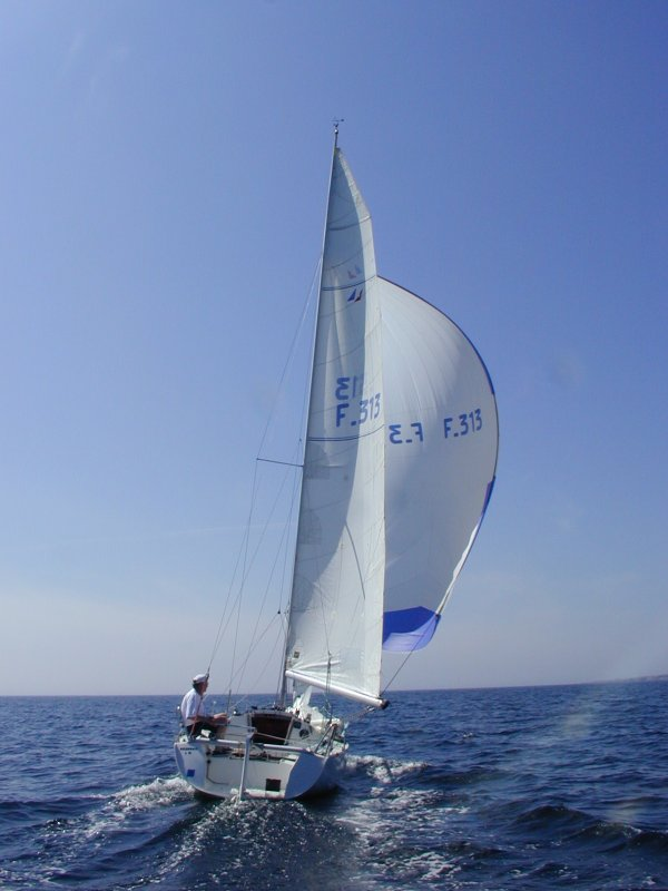 First Class 8 Bezenac